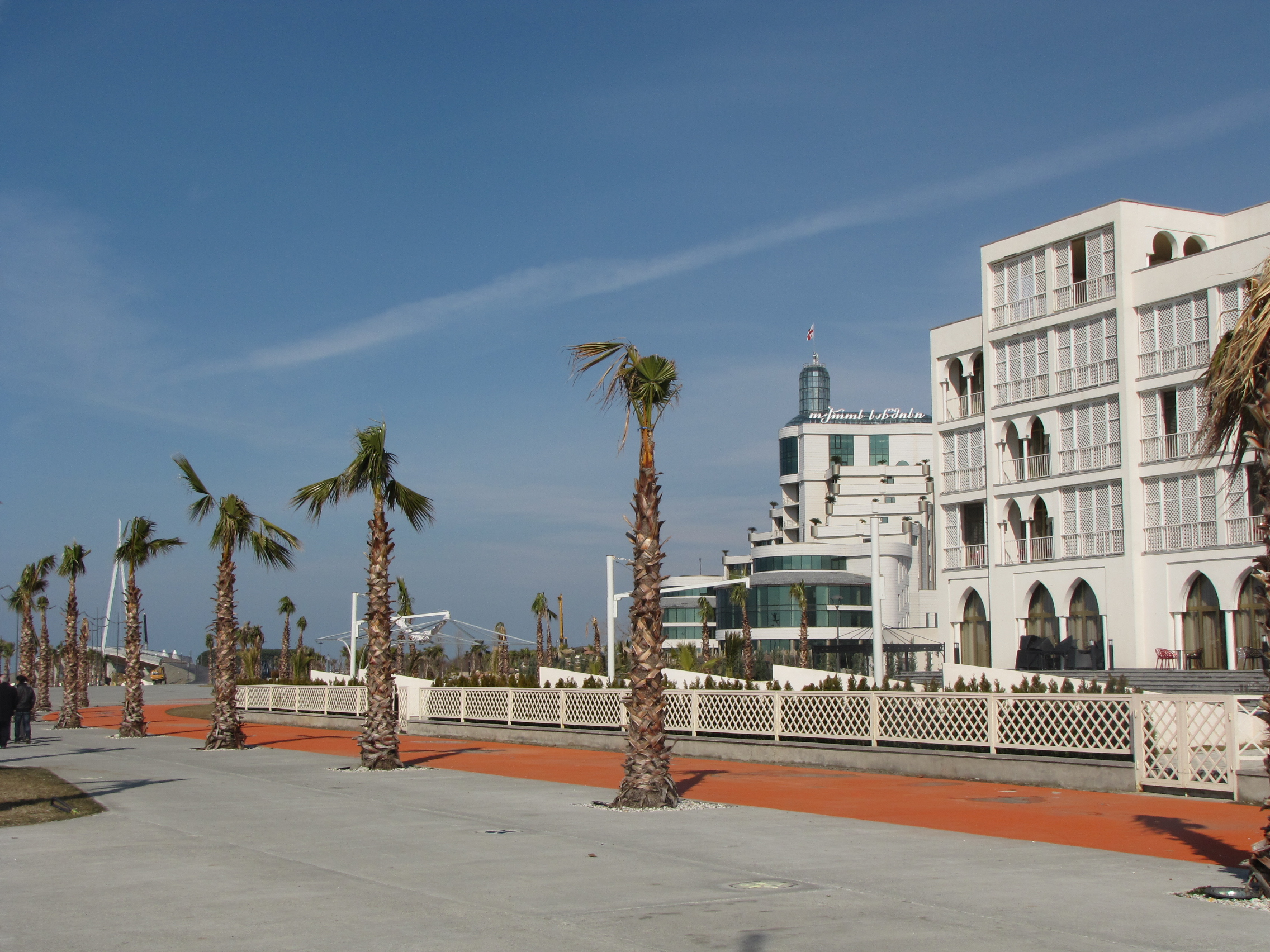 Anaklia, Georgia